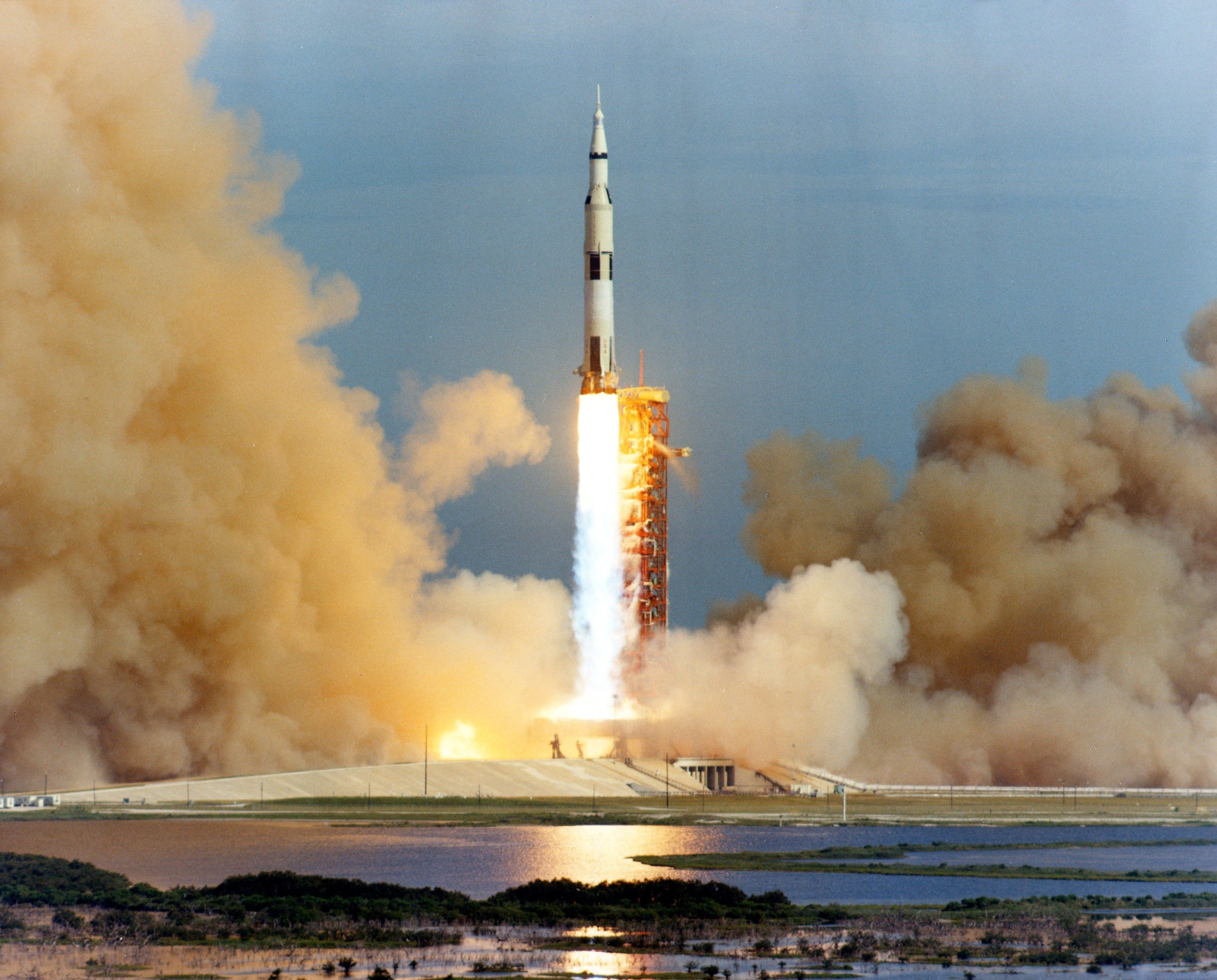 Launch of Apollo 15. The rocket is about to clear the tower.